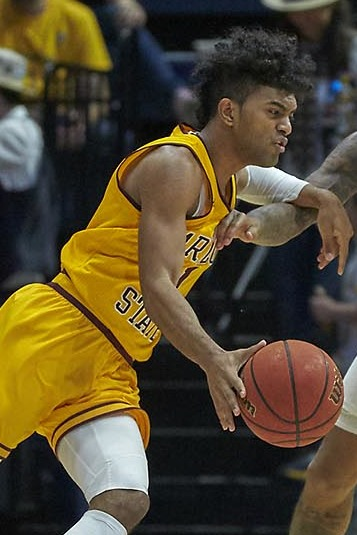 University of California Golden Bears hosted Arizona State University Sun Devils, Pac-12, Mens Basketball, Haas Pavilion, Berkeley, CA